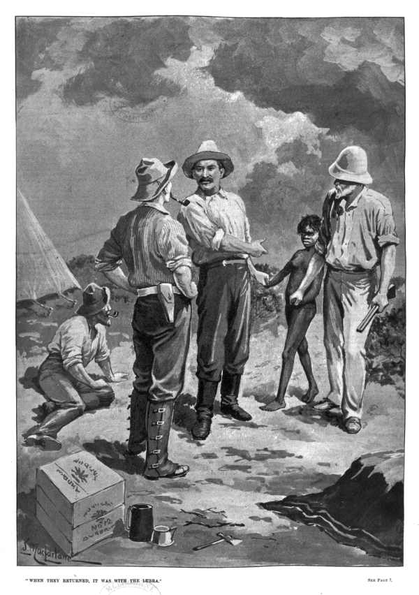 Sketches illustrating a story of murder in the desert: Four men in a camp one holding the hand of a young Aboriginal girl.